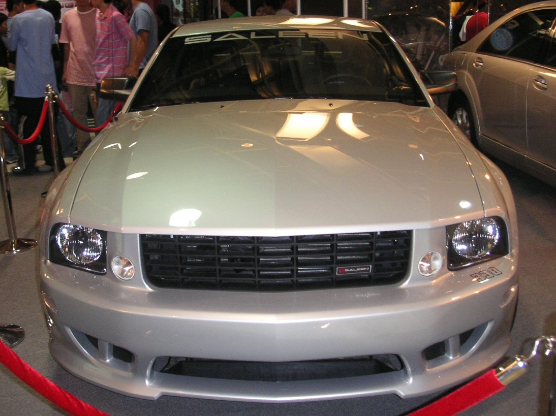 Front view of a Saleen S281.